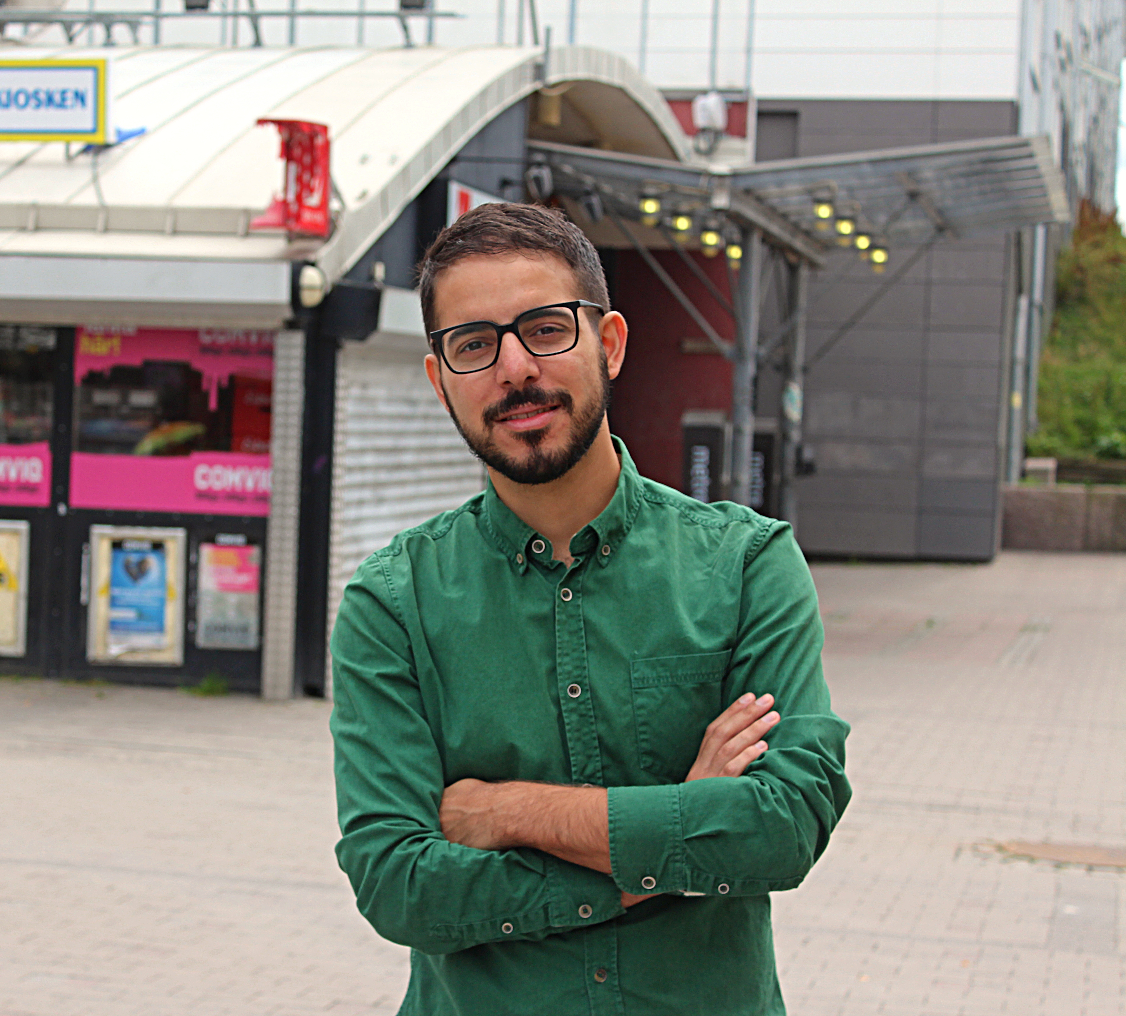 Robert Hannah during election process 2014